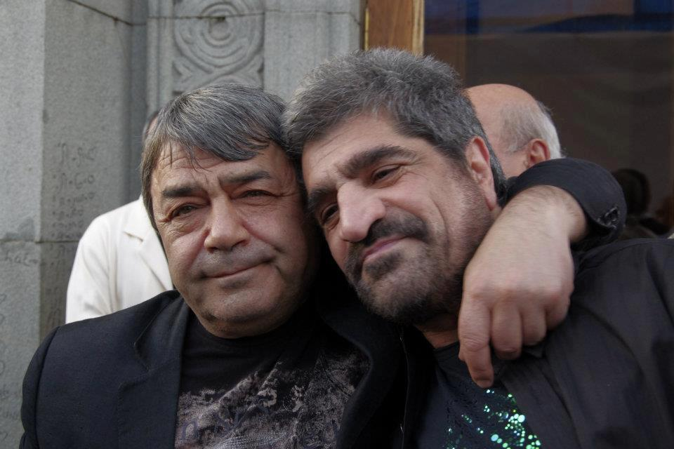 Harout Pamboukjian and Ruben Hakhverdyan during Heritage party rally on Freedom Square, Yerevan, Armenia